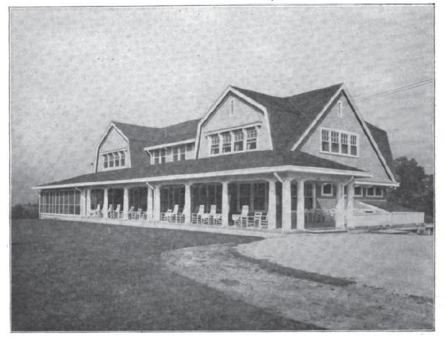 Losantiville Country Club in Cincinnati, Ohio, United States, designed by Tietig and Lee.